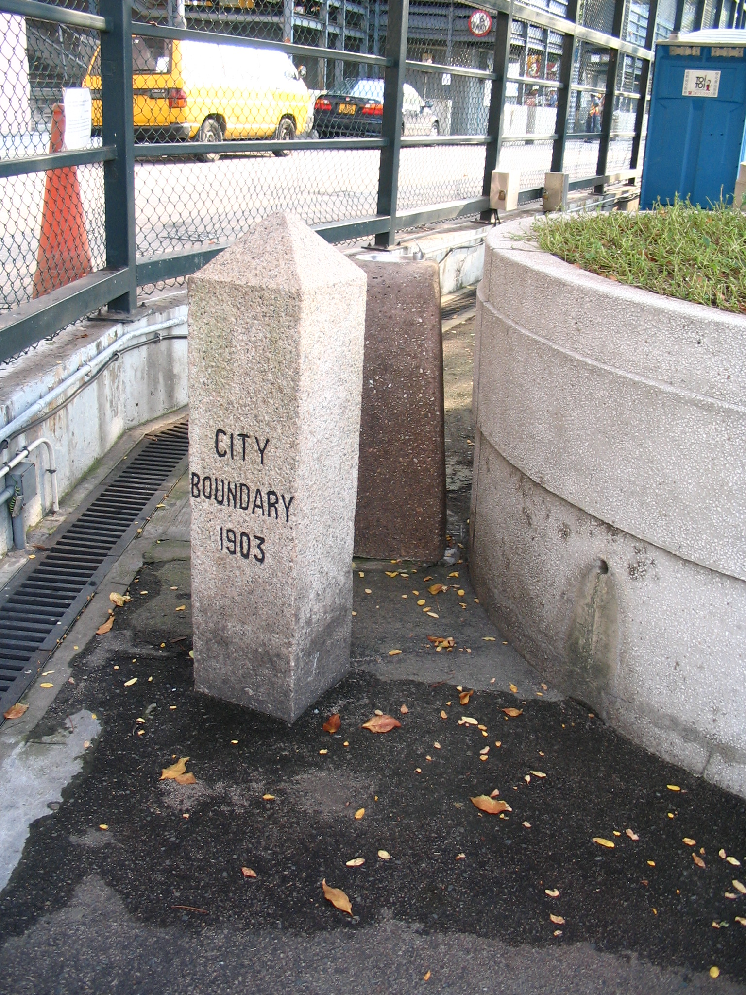 Photo of City Boundary 1903 at Kennedy Town Temporary Recreation Ground